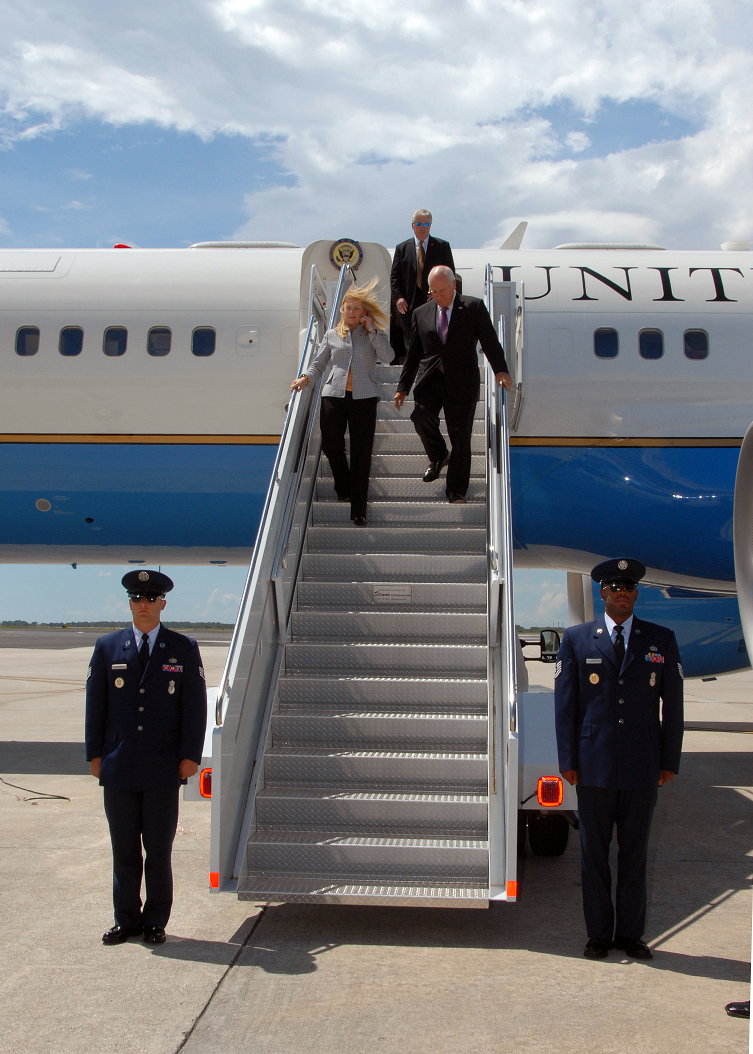 TAMPA, Fla. (Sept. 14, 2007) - Vice President Dick Cheney and his daughter depart Air Force Two upon arrival to MacDill Air Force Base. Cheney visited MacDill to speak to members of Central Command, Special Operations Command and 6th Air Mobility Wing about U.S. efforts in Iraq. U.S. Navy photo by Mass Communication Specialist 2nd Class Alisha M. Frederick (RELEASED)